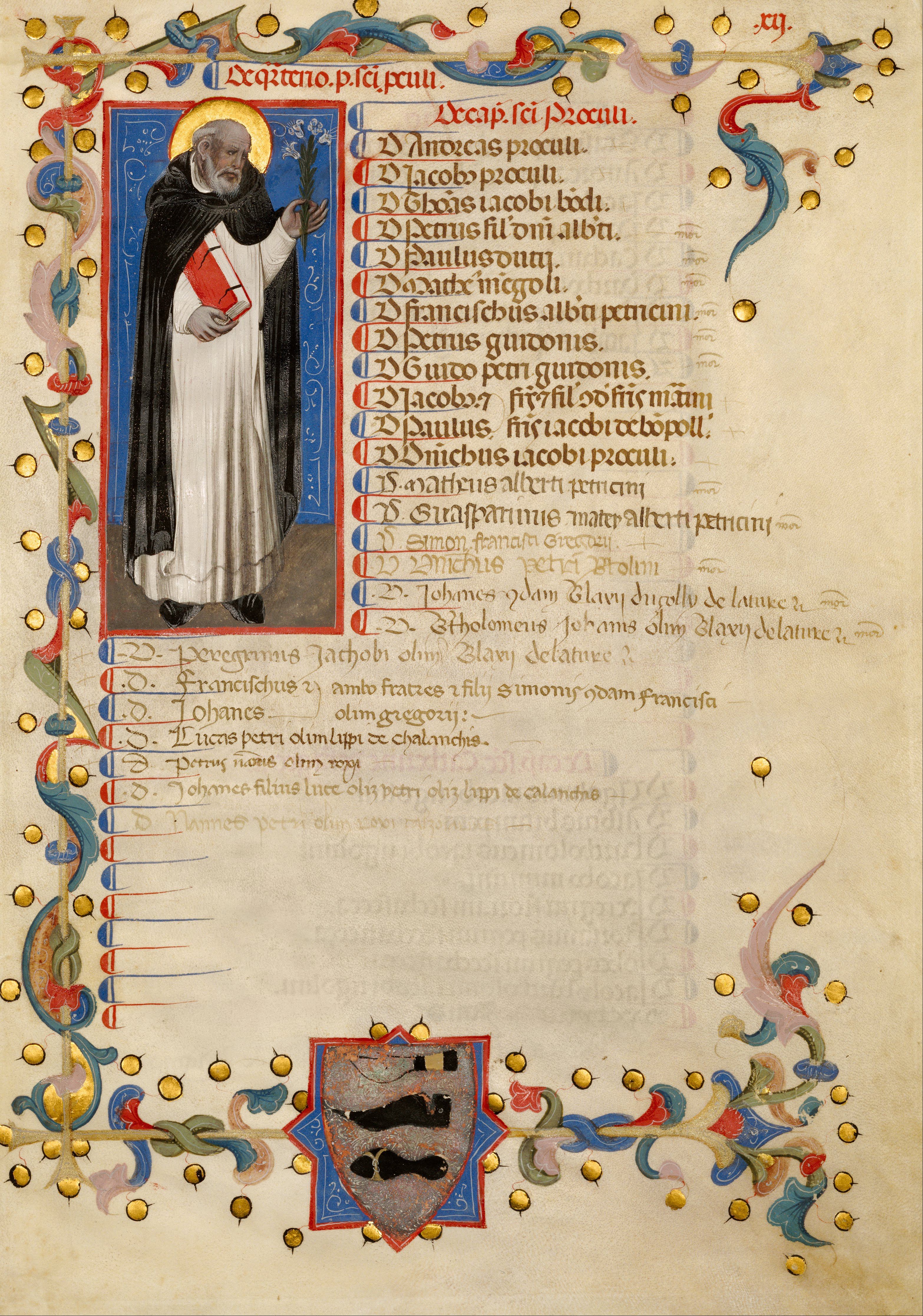 This leaf registers the names of all the members of the shoemaker's guild in the neighborhood of San Procolo in Bologna, the area where the leaf's artist lived. The bottom of the page contains the coat of arms of the guild with a leather-cutting tool, a shoe, and a sandal. At the top left, the artist depicted a massive, imposing figure of Saint Dominic. The weighty presence of Dominic sets off his sensitive, expressive face and the delicate manner in which he holds a bunch of lilies. Dominic was included on this leaf because the neighborhood of San Procolo included the parish of the church of San Domenico. The artist, Niccolò da Bologna, was active in local government and had an official job as the city illuminator. In that capacity he illuminated guild registers like this one.